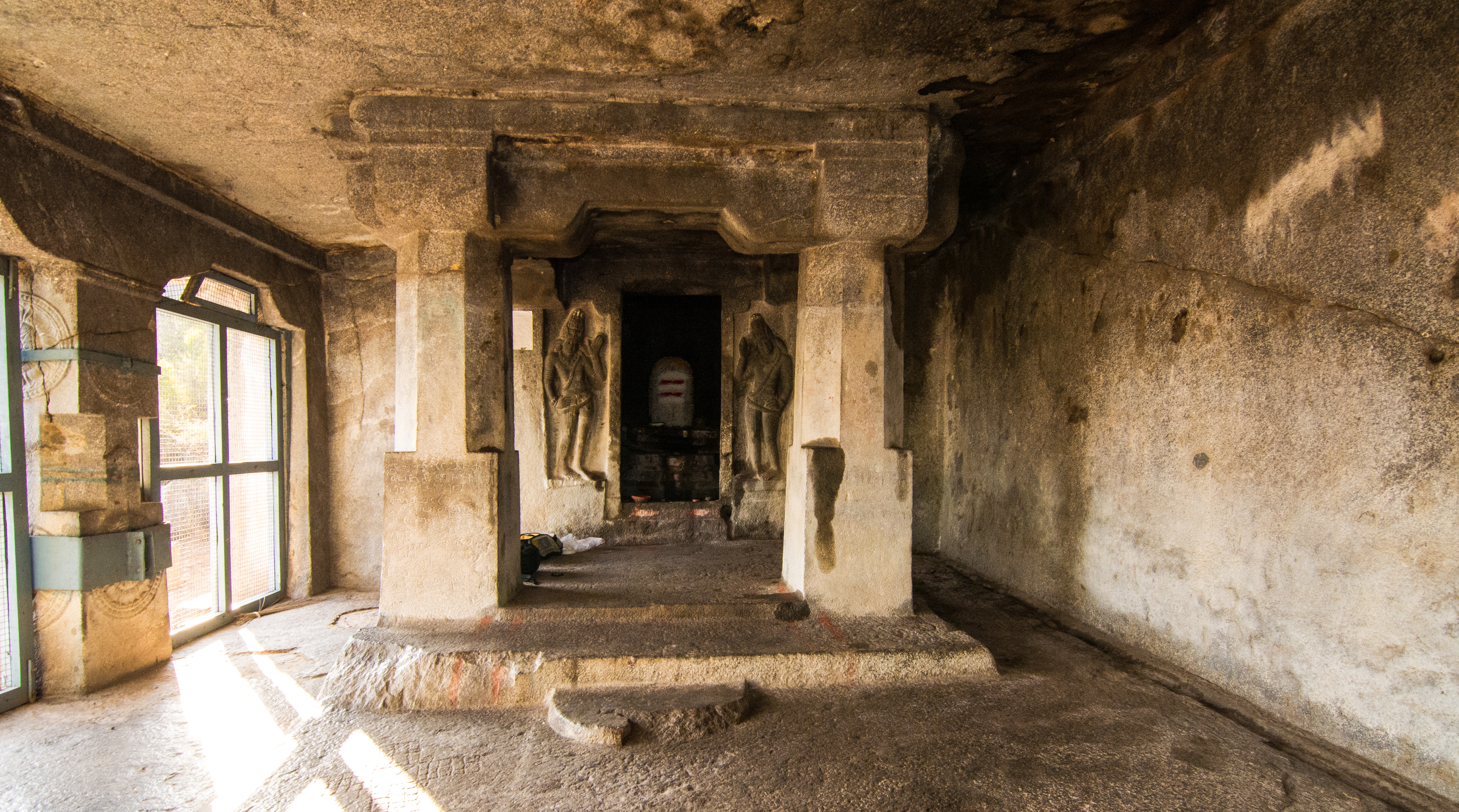 Inside and porch view od Rock cut Pallava cave at Dalavanur